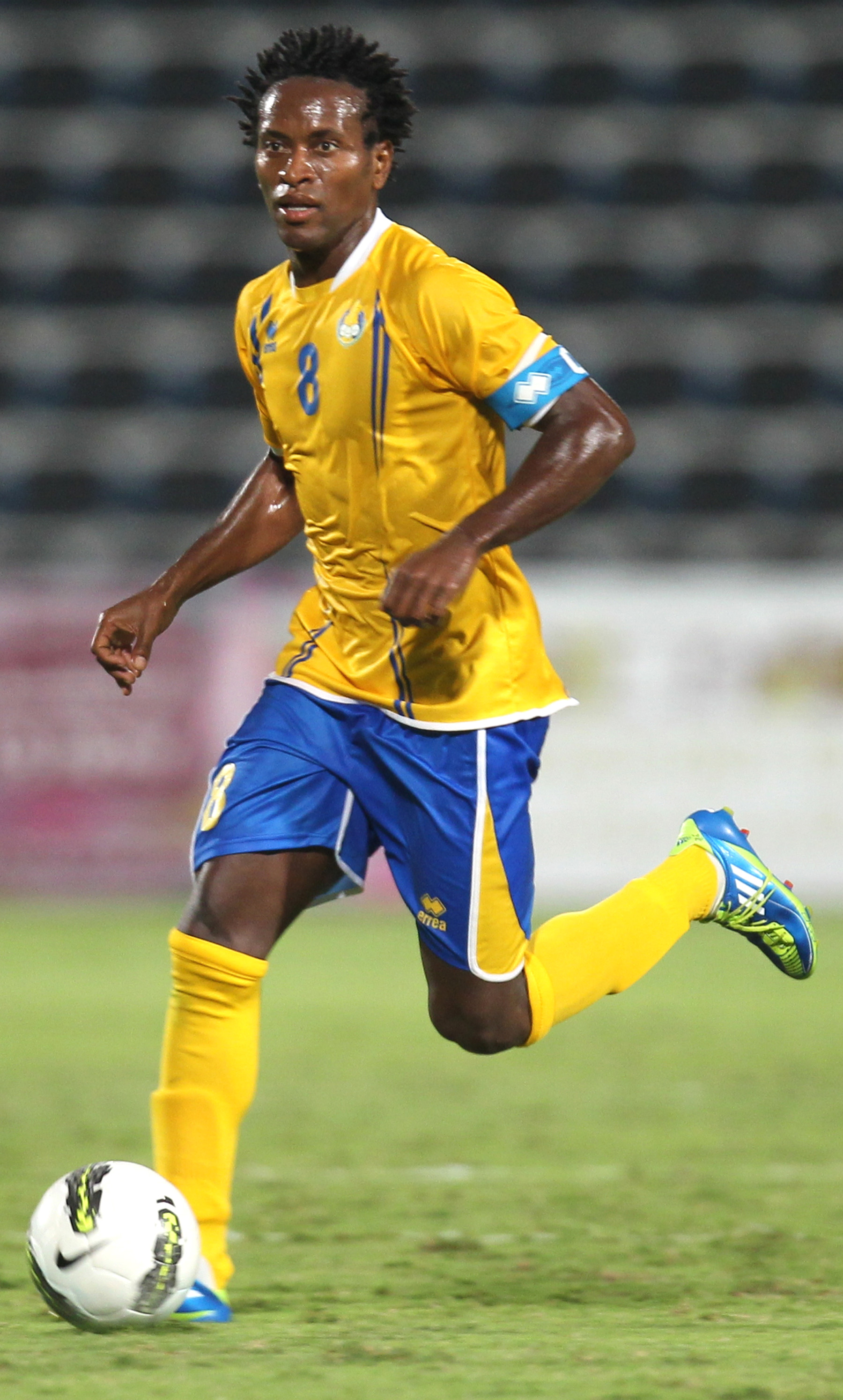 Al Gharafa's Brazilian professional Zé Roberto runs with the ball. Pic by Doha Stadium Plus